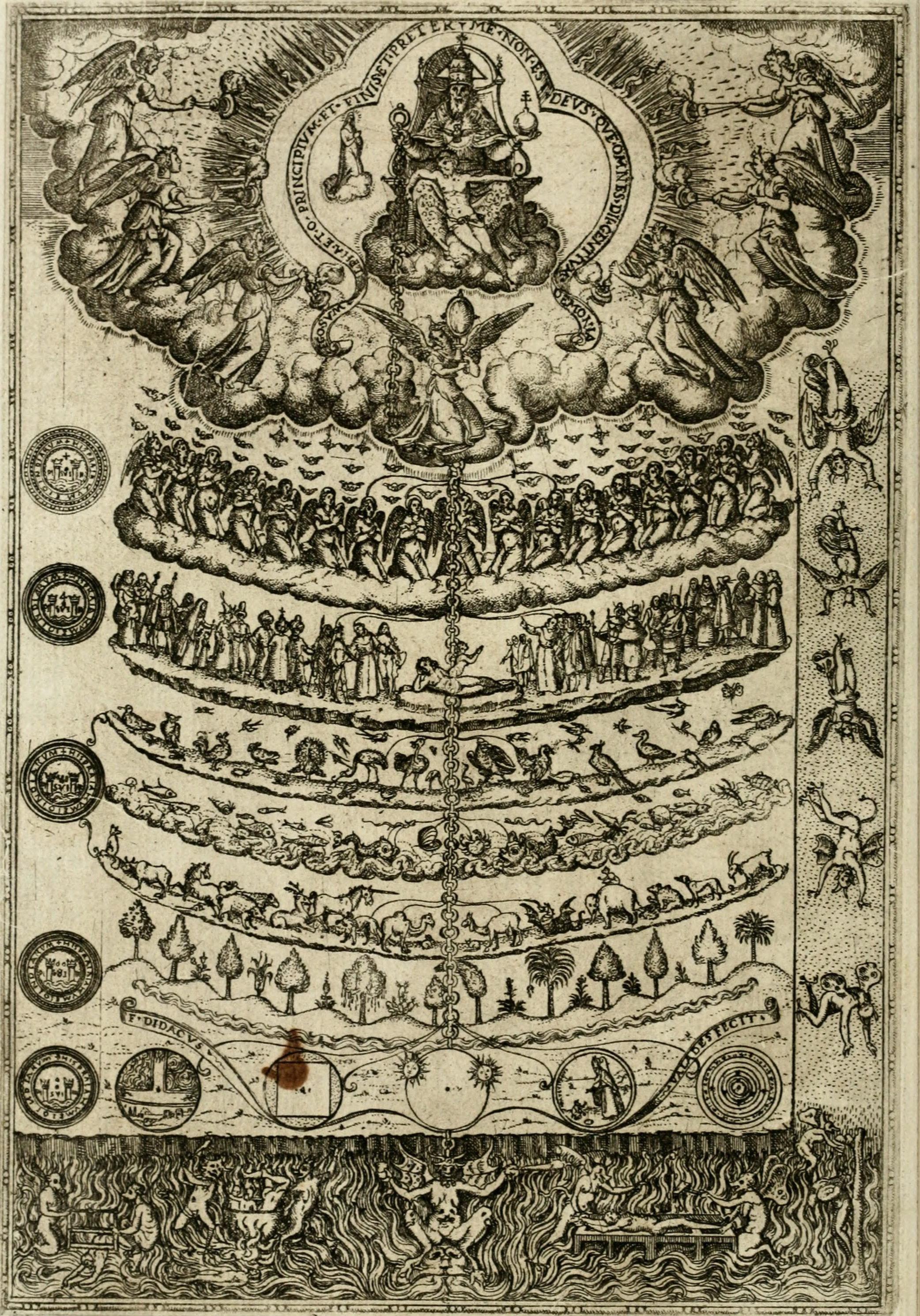 Title: Rhetorica christiana : ad concionandi et orandi vsvm accommodata, vtrivsq(ue) facvltatis exemplis svo loco insertis : qvae qvidem ex Indorvm maximè deprompta svnt historiis : vnde praeter doctrinam, svma qvoqve delectatio comparabitvr Year: 1579 (1570s) Authors: Valadés, Diego, b. 1533 Subjects: Preaching Rhetoric Indians of Mexico Indians of North America Publisher: Pervsiae (Perugia) : Apud Petrumiacobum Petrutium Text Appearing Before Image: ' Text Appearing After Image: '